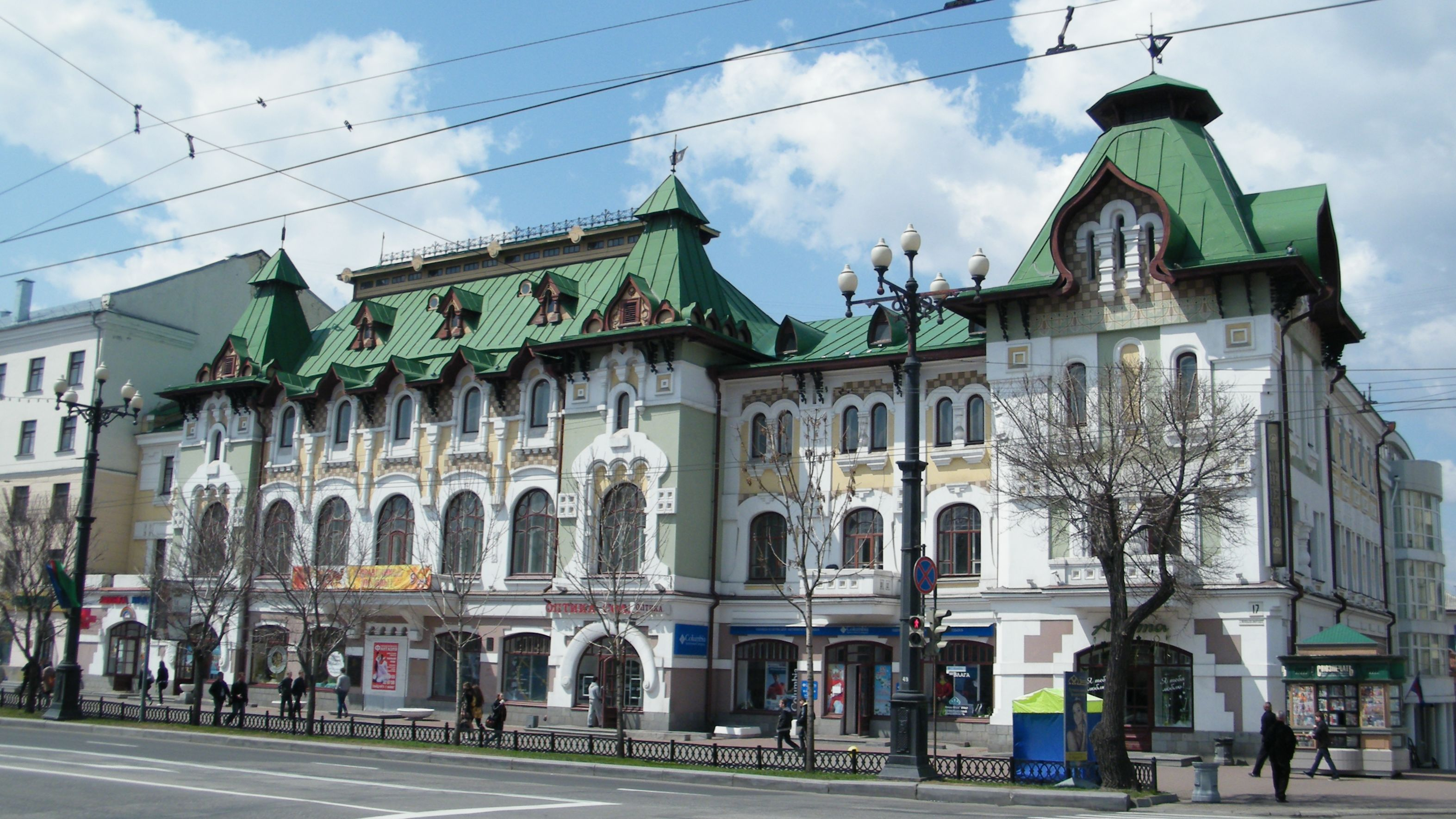 Здание дореволюционной Городской думы, Хабаровск